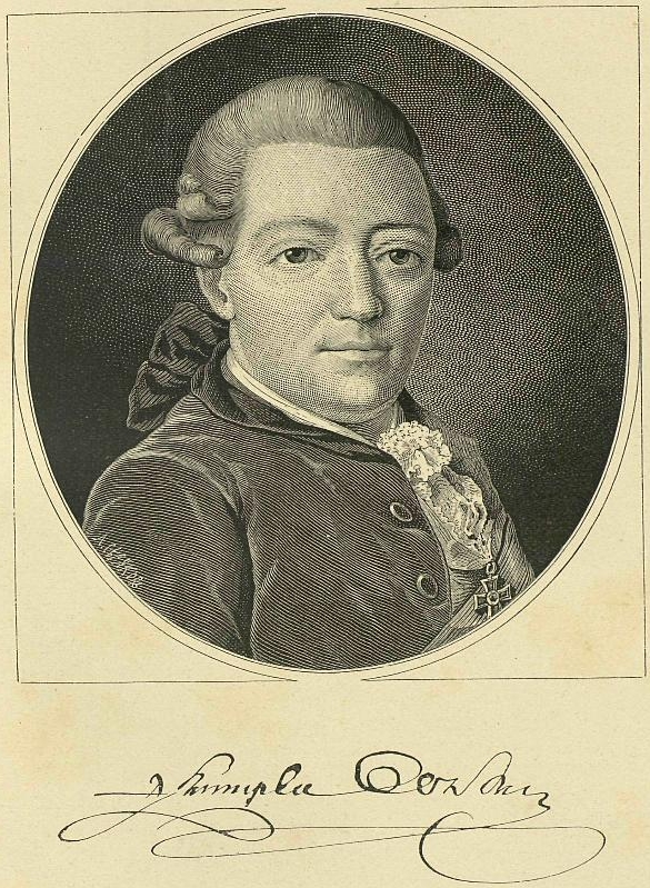 Dmitriy Vasilevich Volkov